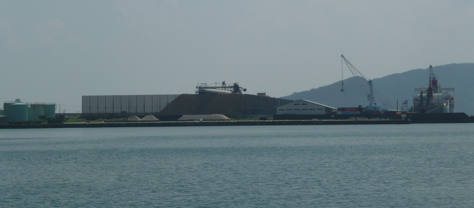 Aburatsu Port - Chip Yard (Nichinan City, Miyazaki, Japan)